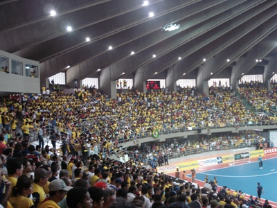 Nélio Dias Gymnasium (Natal/RN - Brazil).